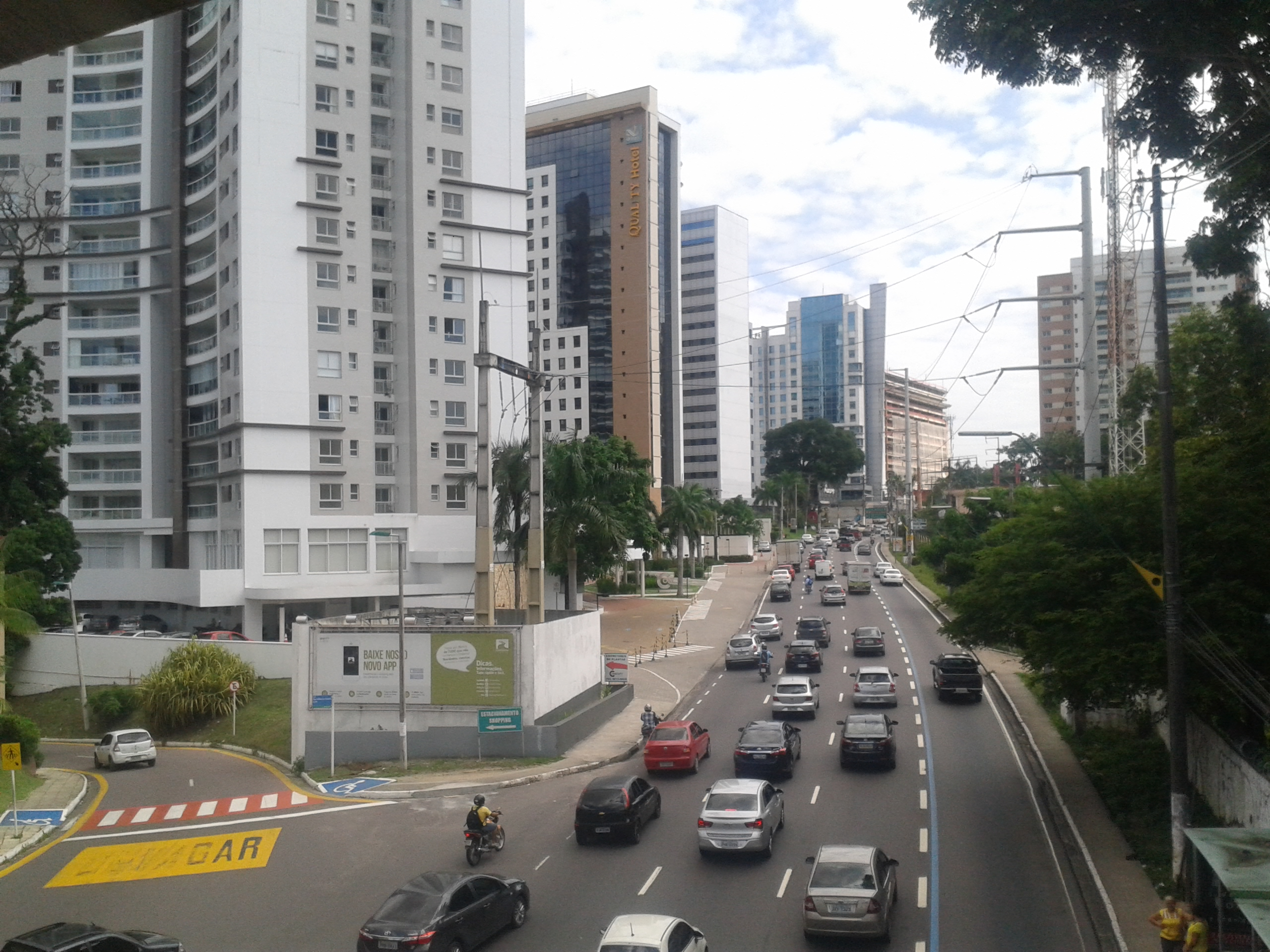 Mário Ypiranga Avenue, Manaus, AM, Brazil.